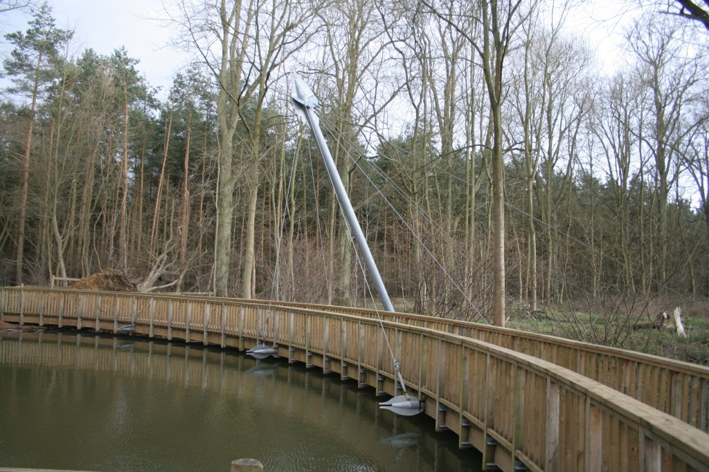 Bridge of Elephant pond, in Royal forest of Salcey, former medieval hunting forest in the south of the county of Northamptonshire in England. Site of Special Scientific Interest.